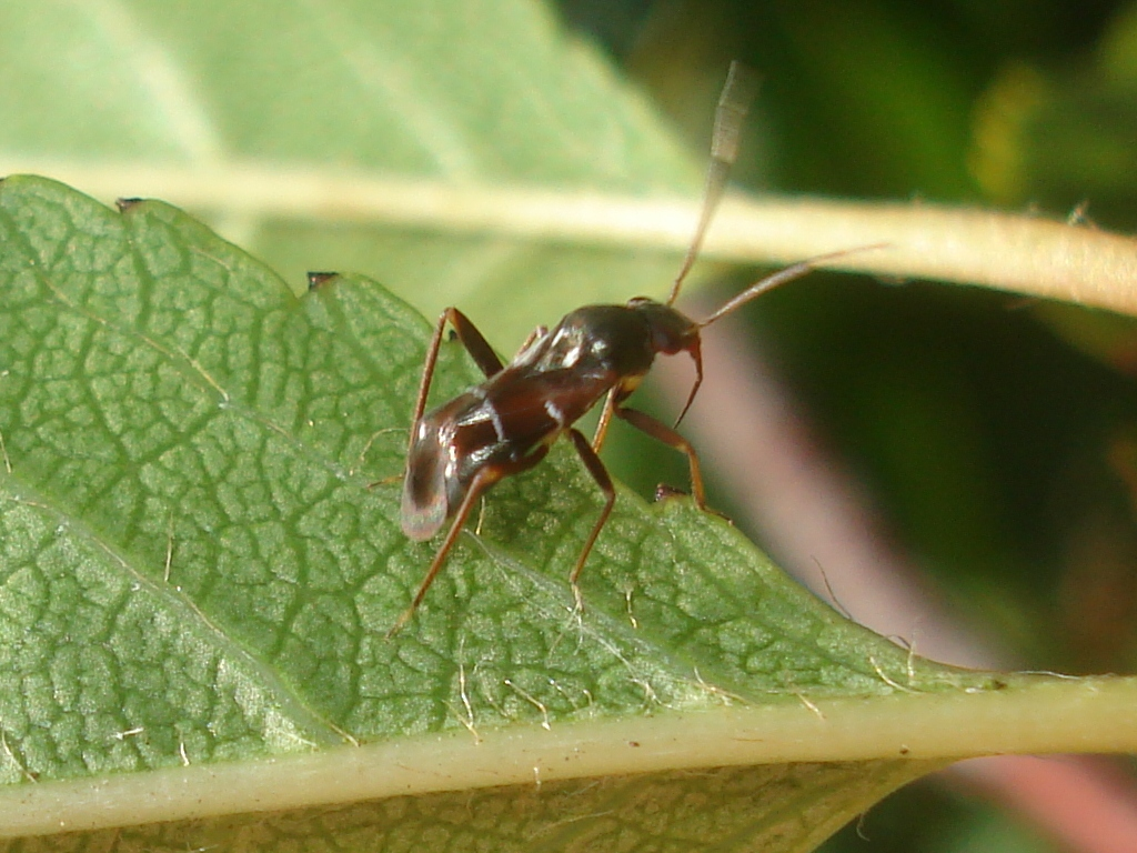 Pilophorus perplexus